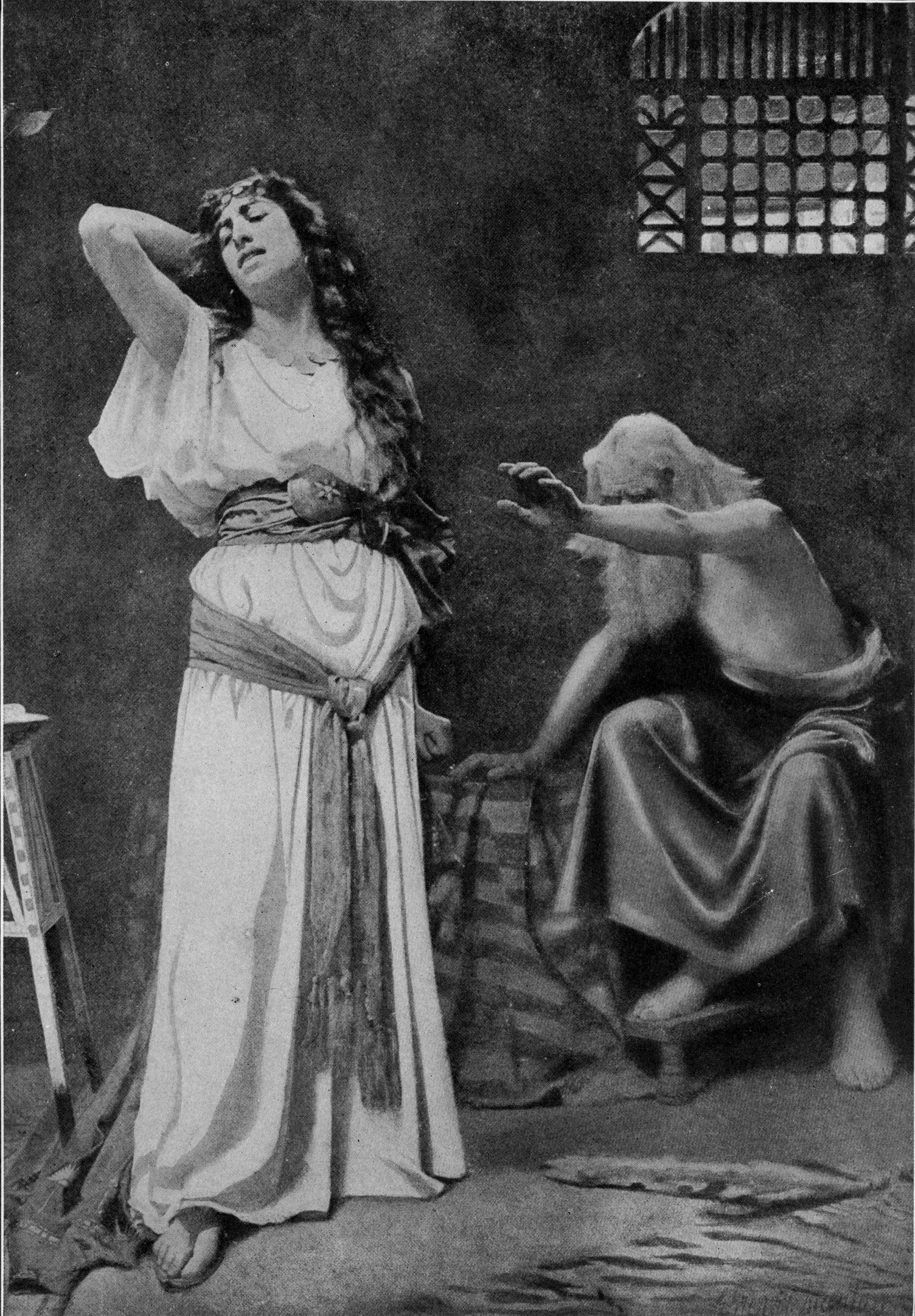 Ahijah's dire prophecy to Jeroboam's wife.